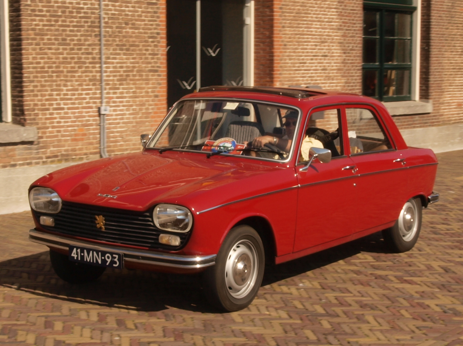 Photographed at Den Helder, The Netherlands. OLYMPUS DIGITAL CAMERA